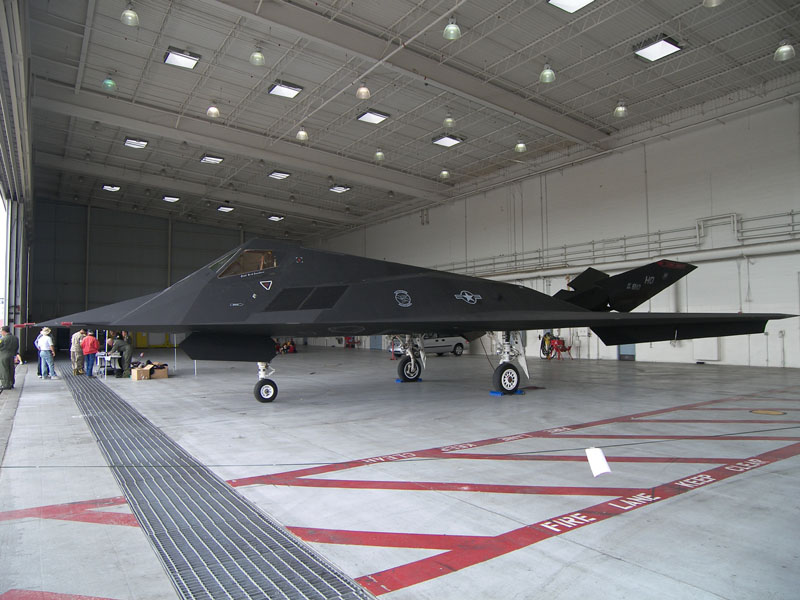 F-117, taken by me at the Miramar Air Show